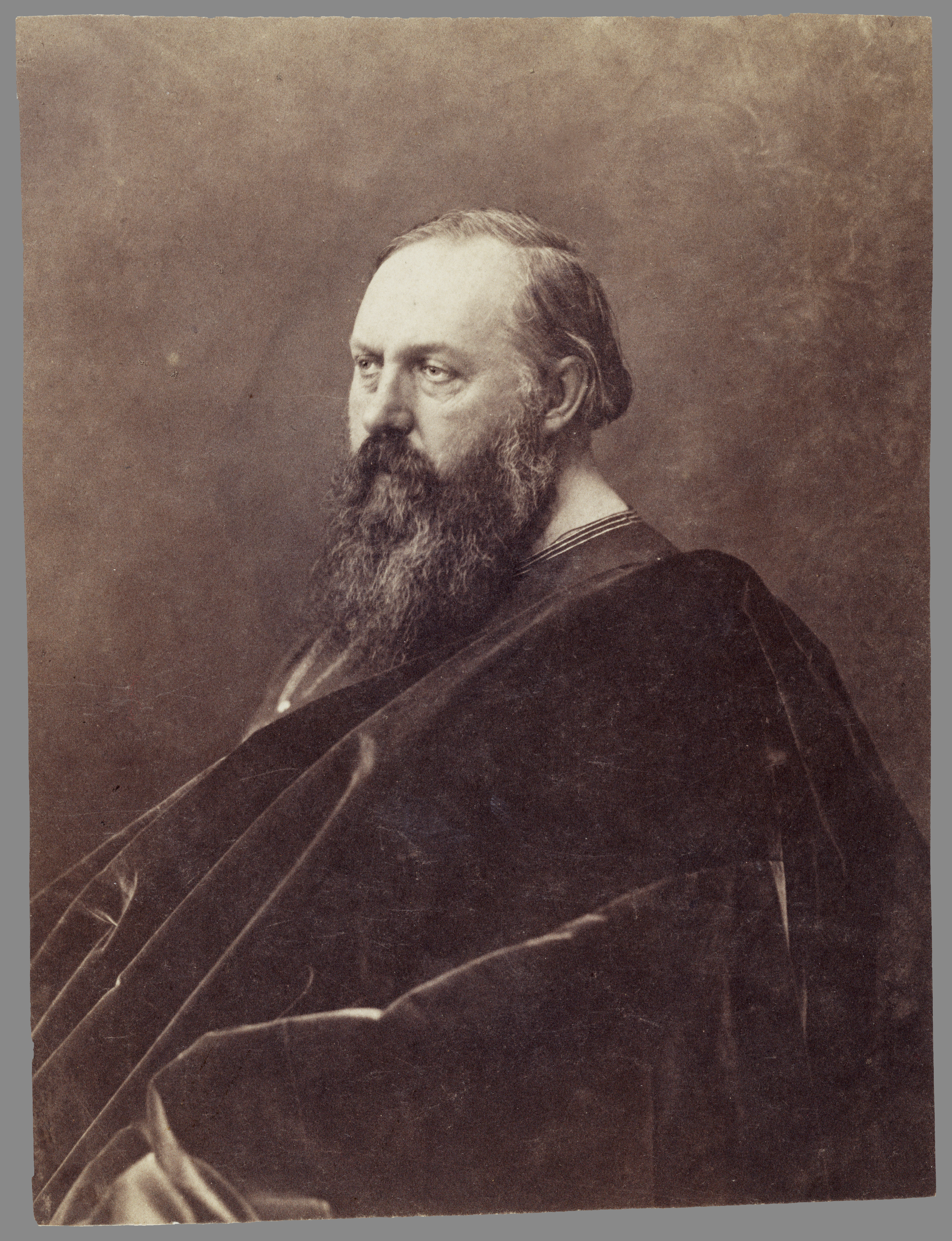 Foto of Prince Leopold, Count of Syracuse by Nadar